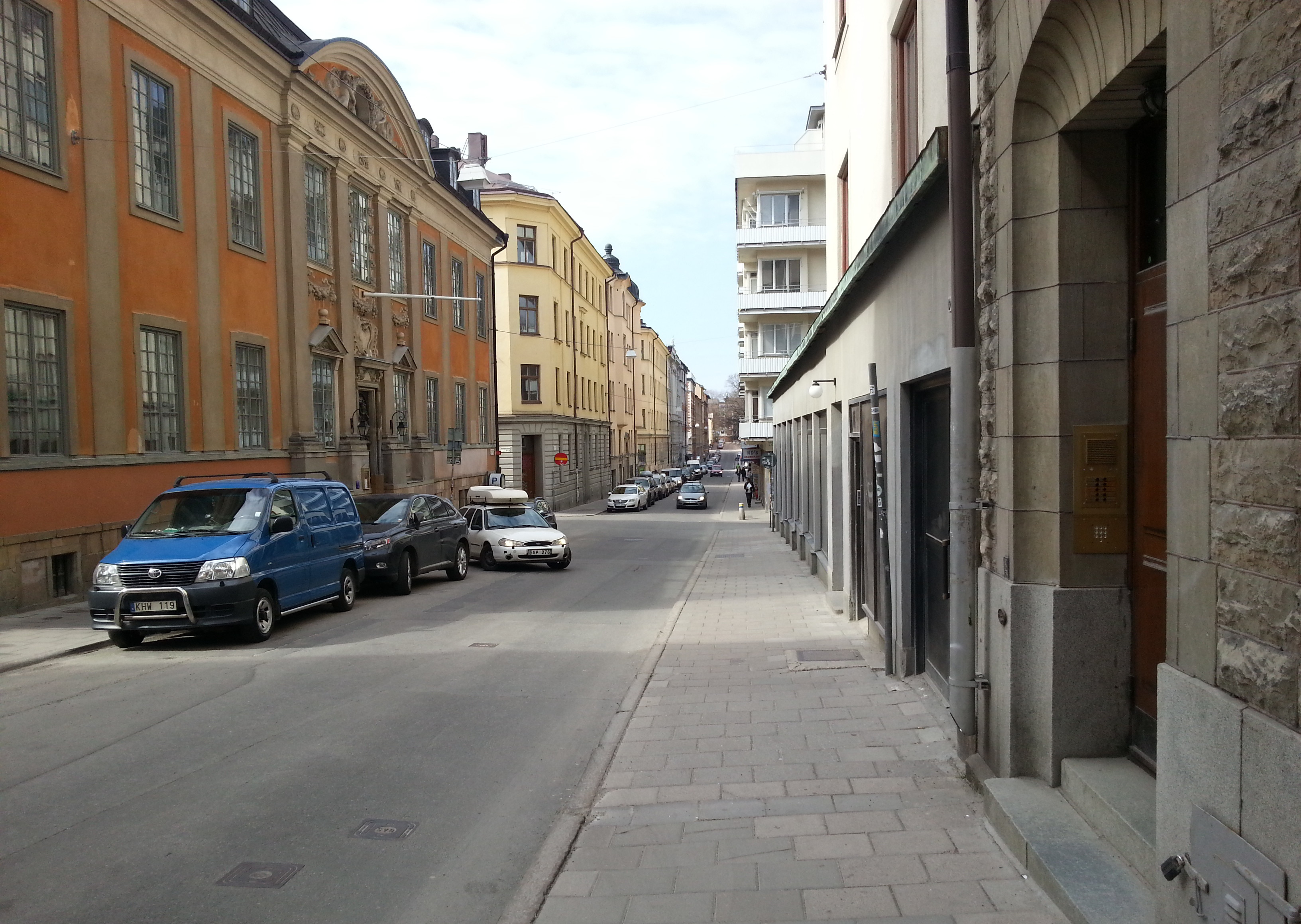 Sankt Paulsgatan in Södermalm, Stockholm, Sweden